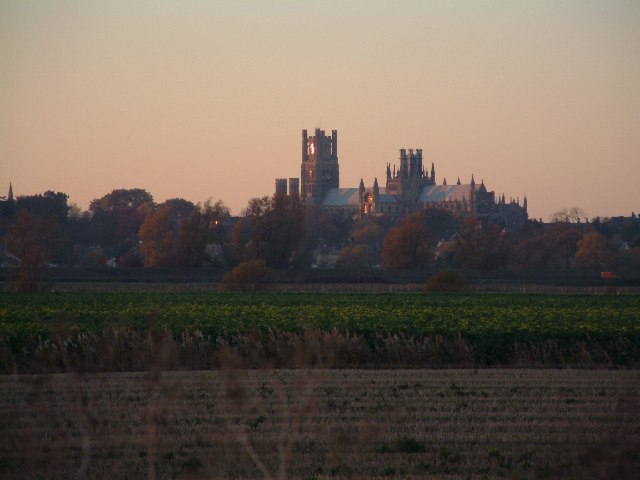 Ely Cathedral. Bathed in evening light, from across the fenland